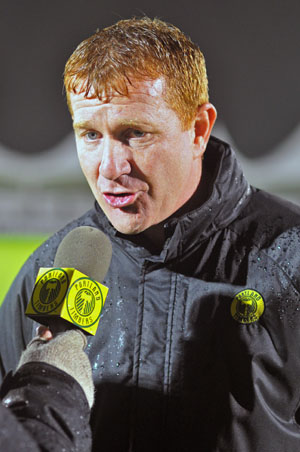 Photo of soccer player / coach, Gavin Wilkinson. Wilson Wong photo.